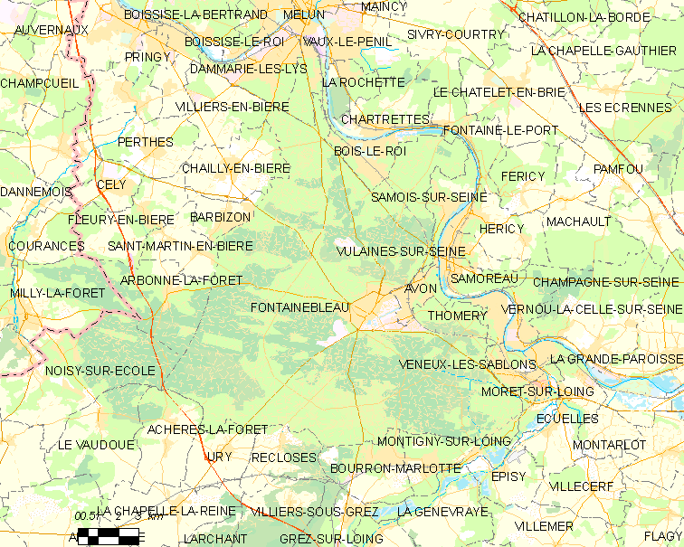 Map of French municipality Fontainebleau